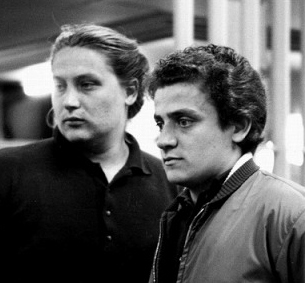 Tamara (left) and Irina Press at the 1964 Olympics